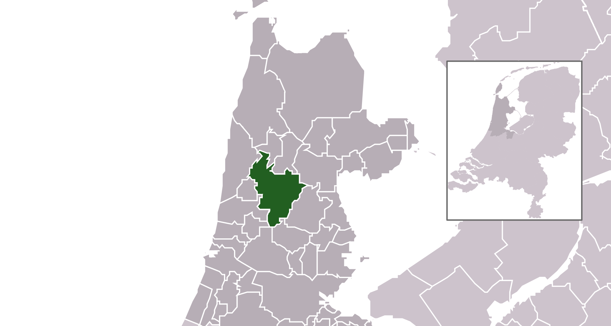 Location maps for the 441 municipalities in the Netherlands. Boundaries 1/1/2009 Automatically generated with script File name contains "Municipality code" (CBS-code) as specified in: [1] Created in svg using coordinate data derived from ESRI data published by Centraal Bureau voor de Statistiek, Voorburg/Heerlen. ([2]) Color coding and original design (slightly adpated by me) by user Mtcv (2006/2007) ([3]) Updated until January 1, 2014 The copyright holder of this file, Centraal Bureau voor de Statistiek, allows anyone to use it for any purpose, provided that the copyright holder is properly attributed. Redistribution, derivative work, commercial use, and all other use is permitted. Attribution: Centraal Bureau voor de Statistiek This work is free and may be used by anyone for any purpose. If you wish to use this content, you do not need to request permission as long as you follow any licensing requirements mentioned on this page.